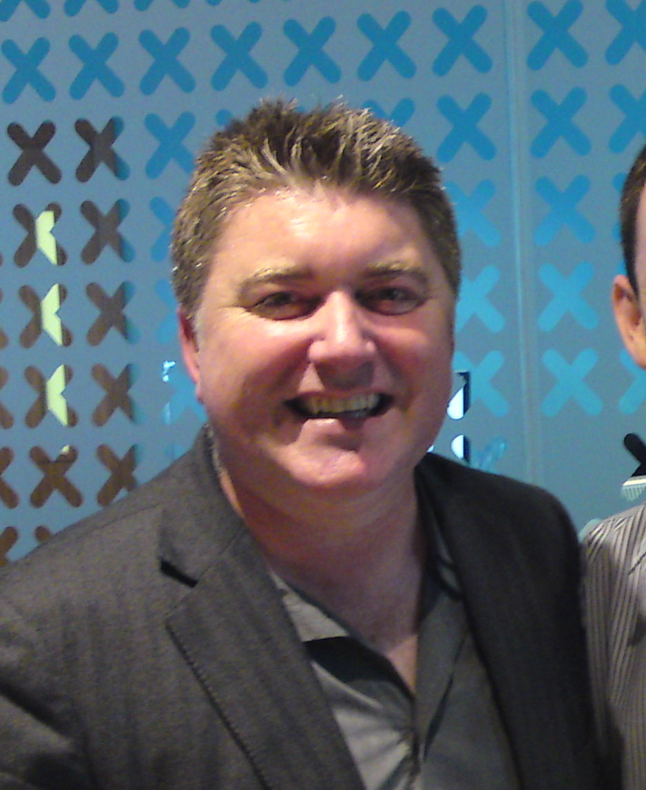 A crop of Pat Shortt